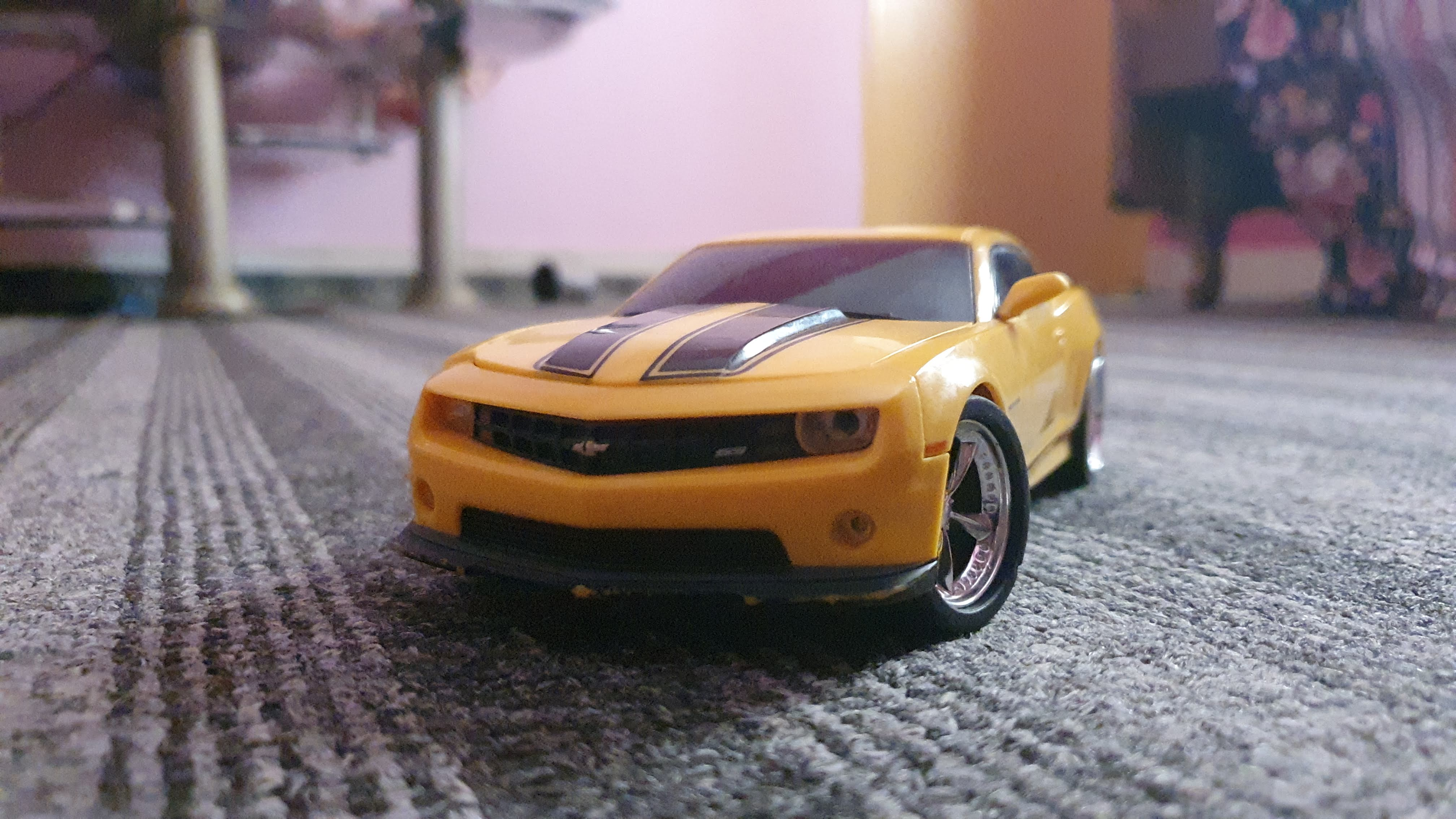 A yellow Chevrolet Camaro SS RC Car